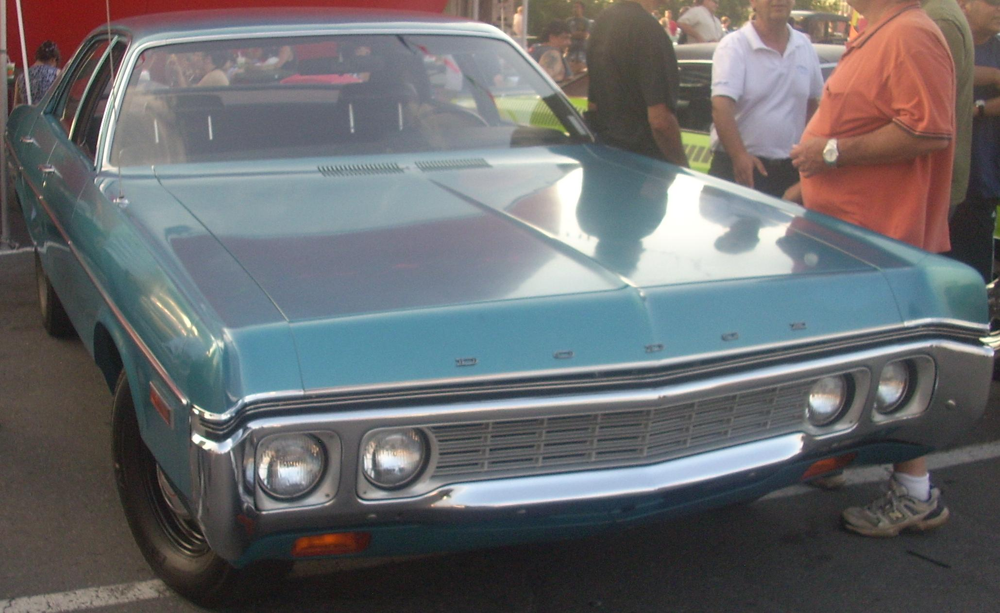 1972 Dodge Polara 4-Door Sedan photographed in Montreal, Quebec, Canada at Gibeau Orange Julep.